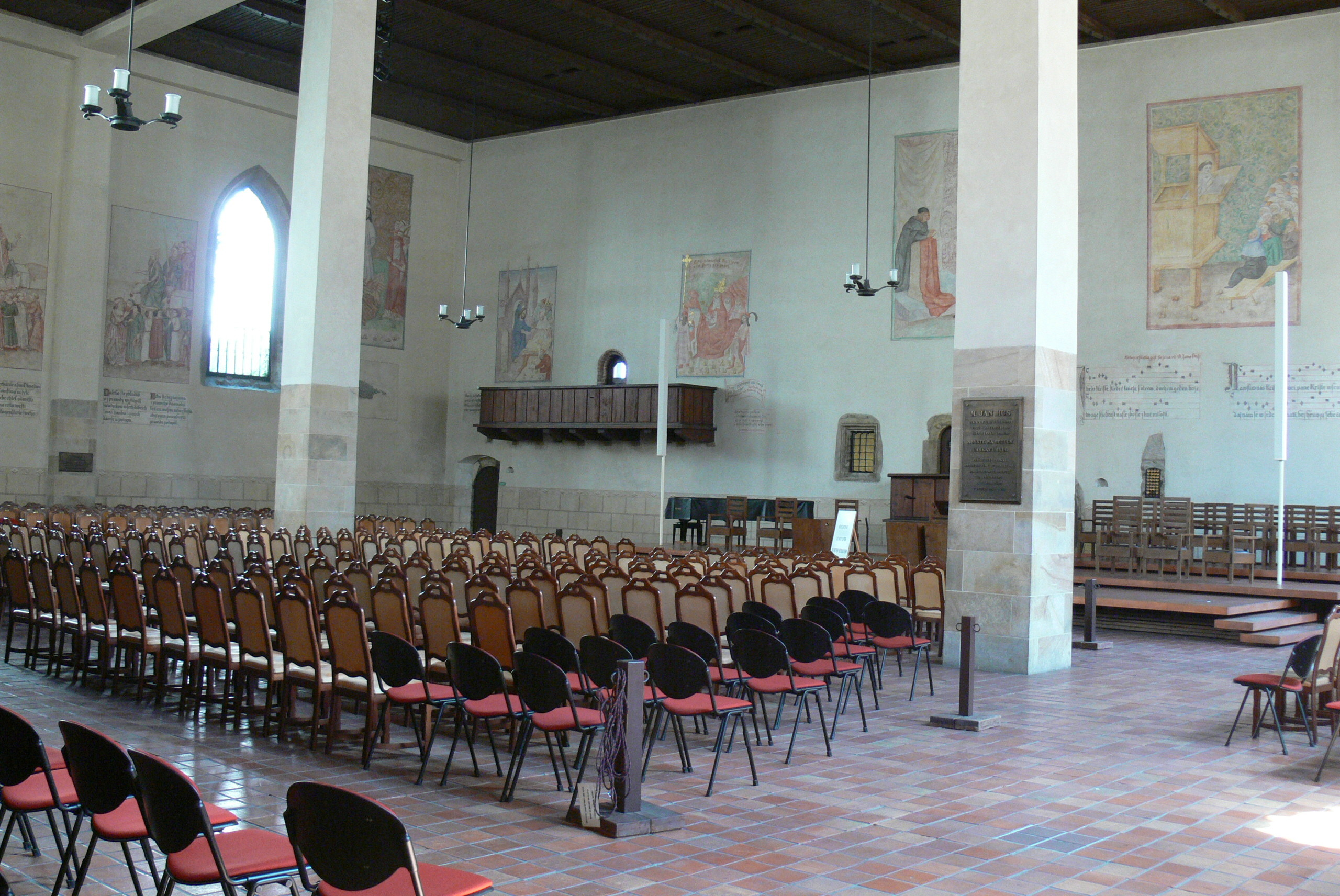 Bethlehem chapel ( Prague ). Interior.